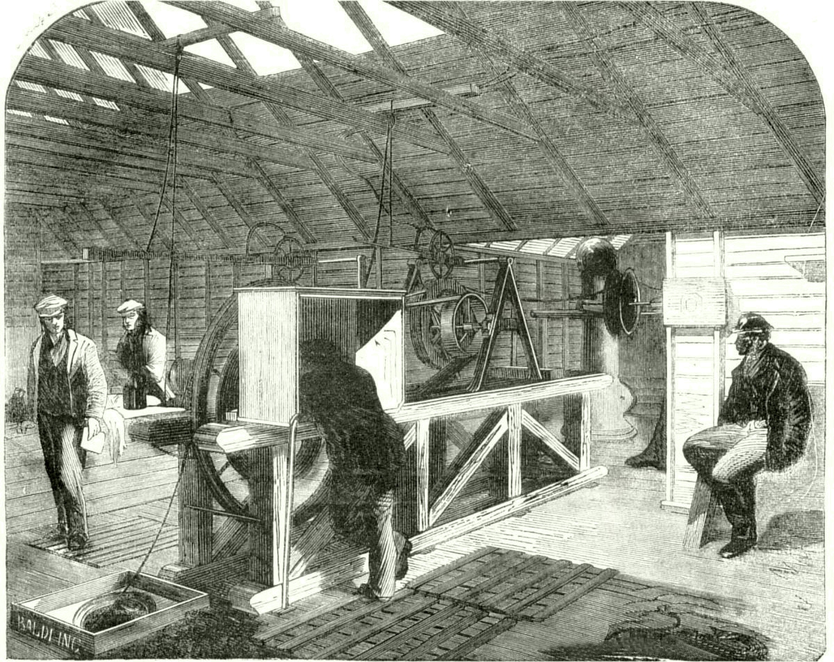 In the hold of the SS Great Eastern, during placement the Atlantic telegraph cable in 1865